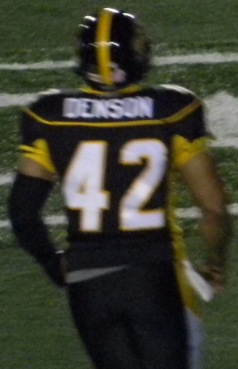 Hamilton Tiger-Cats against BC Lions on a game in Hamilton, #42Brandon Denson, #11Jeremy Kelley and #9Renauld Williams